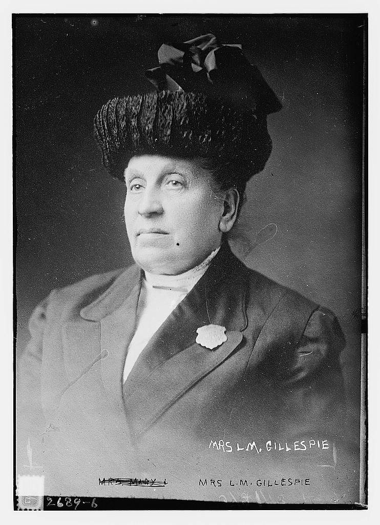 Bain News Service,, publisher. Mrs. L. M. Gillespie circa 1913 [no date recorded on caption card] 1 negative : glass ; 5 x 7 in. or smaller. Notes: Title from unverified data provided by the Bain News Service on the negatives or caption cards. Forms part of: George Grantham Bain Collection (Library of Congress). Format: Glass negatives. Repository: Library of Congress, Prints and Photographs Division, Washington, D.C. 20540 USA, General information about the Bain Collection is available at Persistent URL: Call Number: LC-B2- 2689-6 This photo has notes. Move your mouse over the photo to see them. Comments